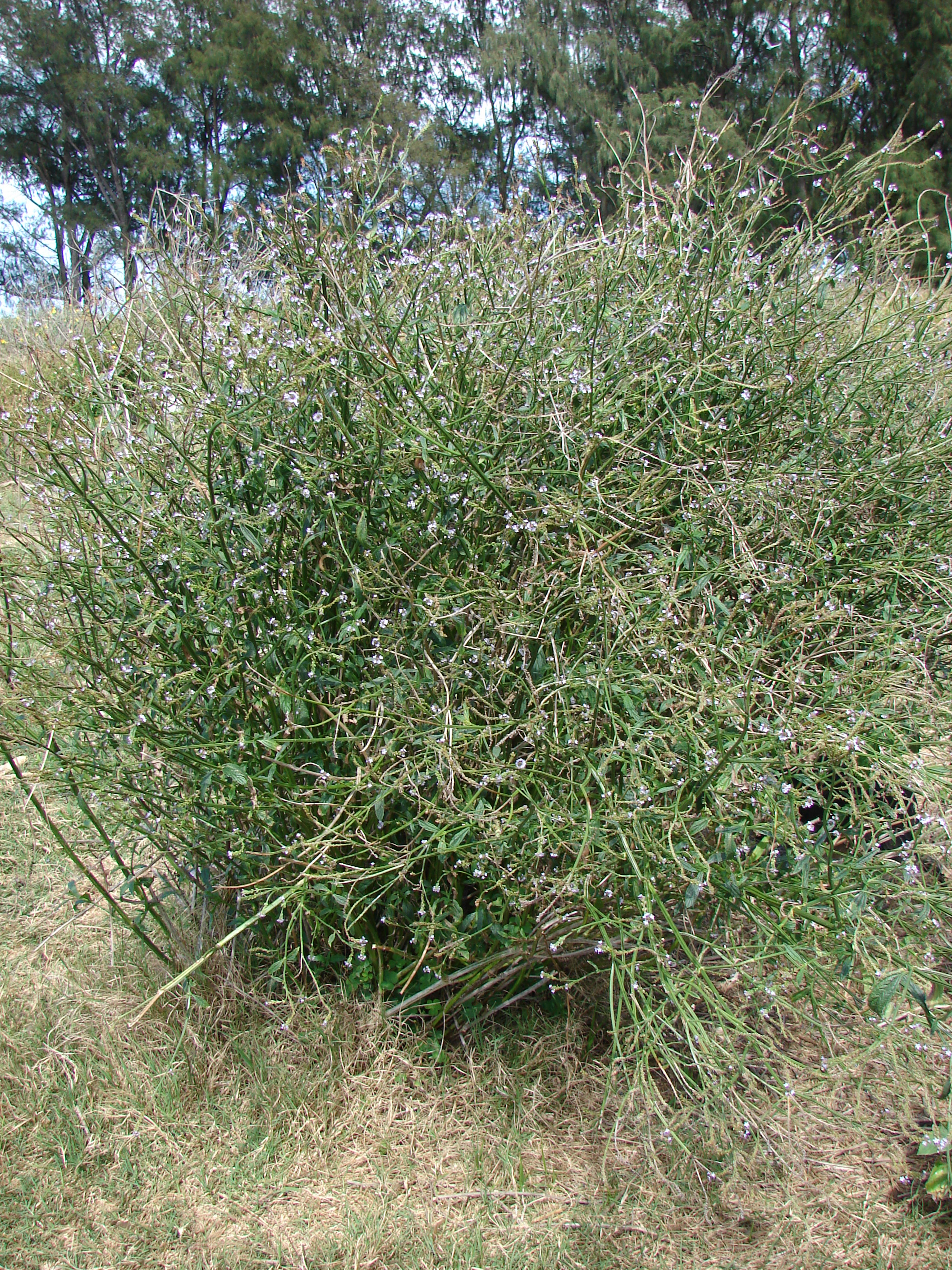 Verbena litoralis (habit). Location: Midway Atoll, Cargo pier Sand Island